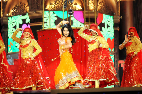 colors indian telly awards